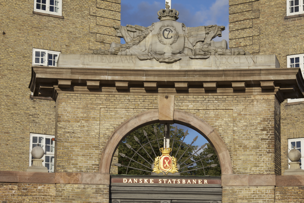 Detail of the gate on the corner of Sølvgade and Øster Voldgade (The former Sølvgade Barracks, now DSB headquarters but up for sale) in Copenhagen, Denmark